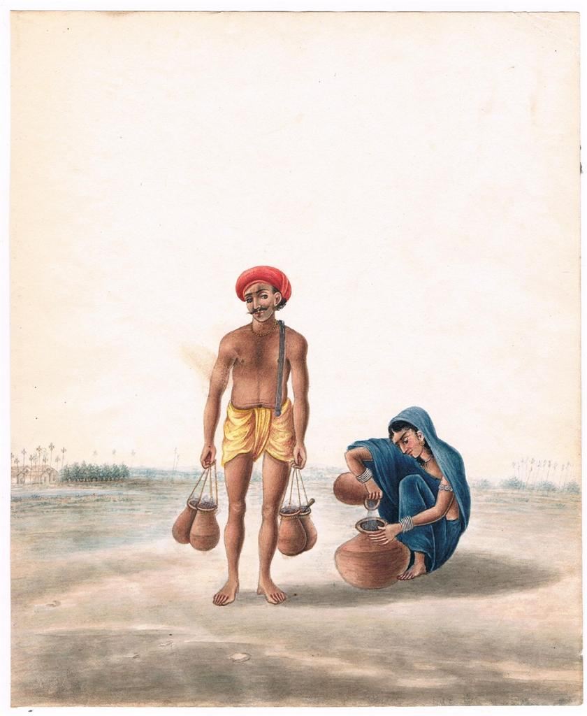 Glassmakers, Patna, 1819, 1824; from a series of Company School watercolors of various trades: also *Hookah Maker*; *Ox Handler*; *Baggage Carrier*; *Grain Seller*; *Treader-out of Grain*; *Basket and Punka Maker*; *Bruiser of grain (making rice)*; *Brick delivery man*; *Metal workers*; *Hot water seller*